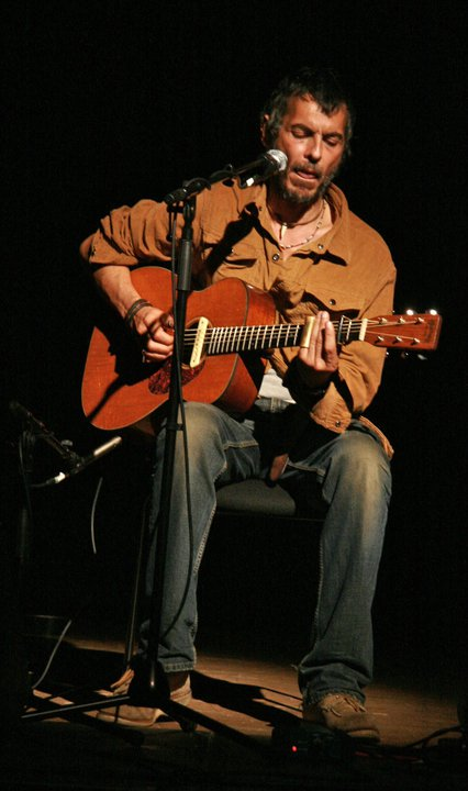 Paul Wassif rehearsal at Queen's Hall, Edinburgh, before gig with Bert Jansch on 27th August 2010